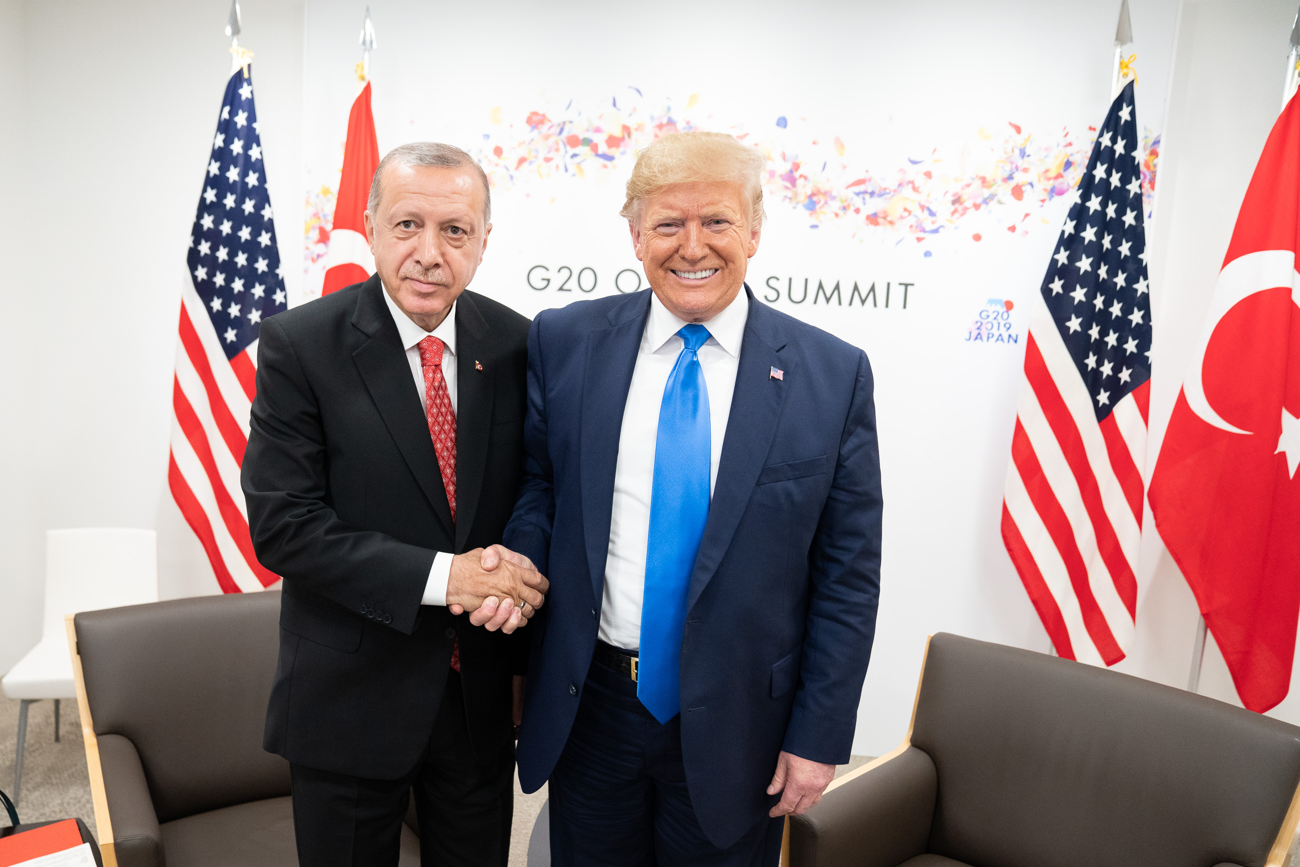 President Donald J. Trump participates in a bilateral meeting with President of the Republic of Turkey Recep Tayyip Erdogan at the G20 Japan Summit Saturday, June 29, 2019, in Osaka, Japan. (Official White House Photo by Shealah Craighead)